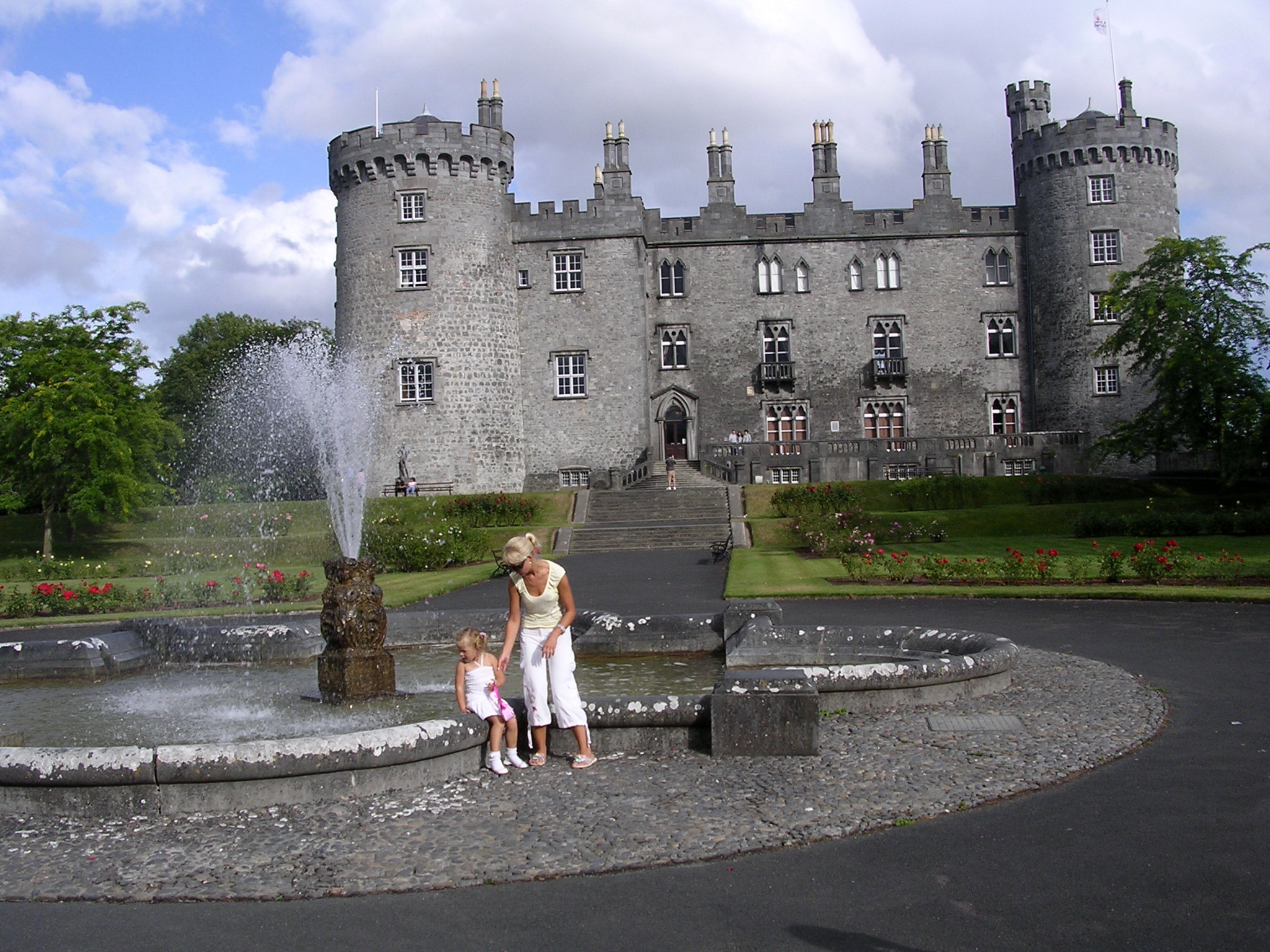 Side view of Kilkenny Castle from the West